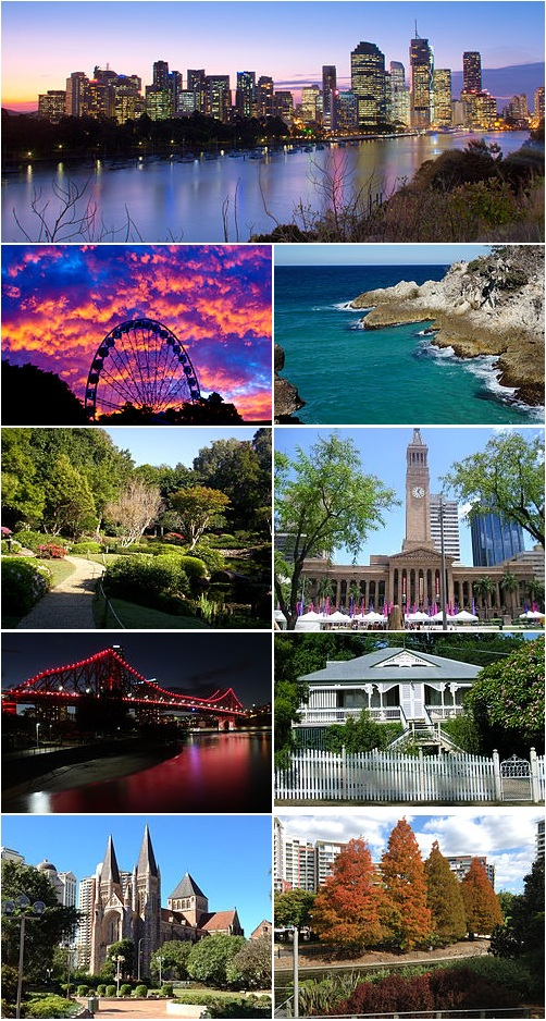 Montage of Brisbine, Queensland. This montage idea is from English Wikipedia.